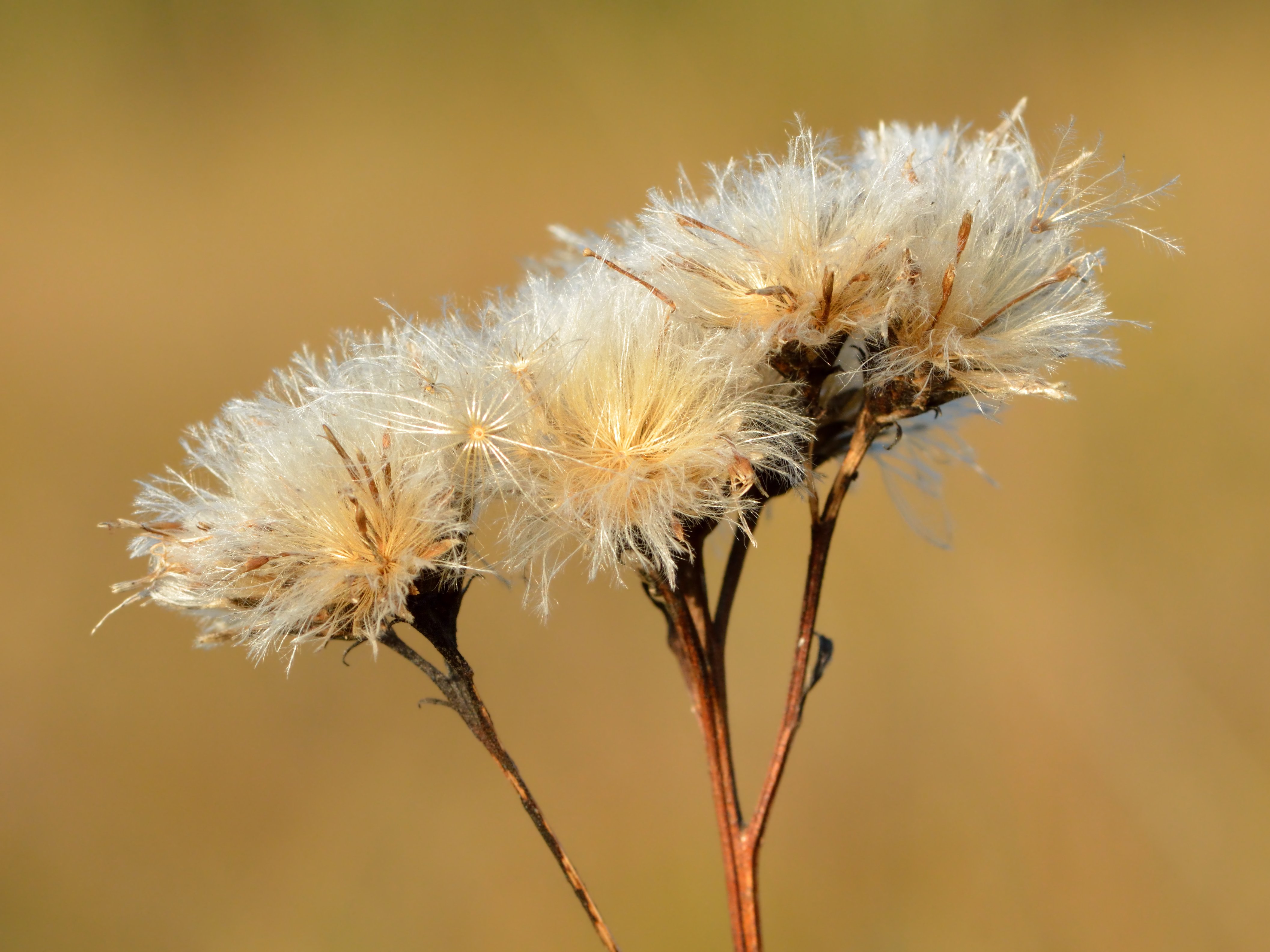 Seed head of the estonian saw-wort (Saussurea alpina esthonica). Niitvälja bog, Northwestern Estonia.